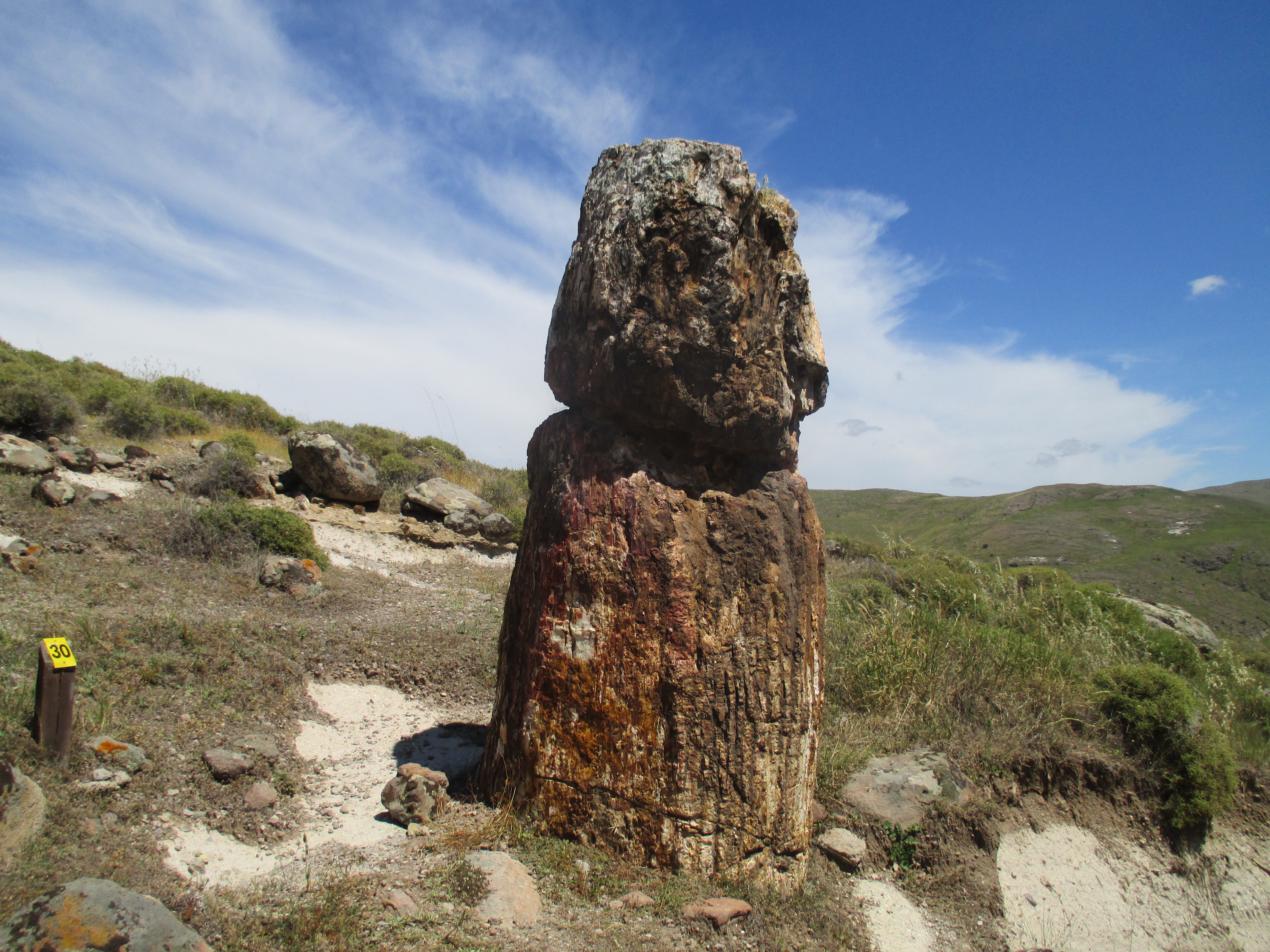 Petrified forest of Lesbos (Lesvos), Greece.